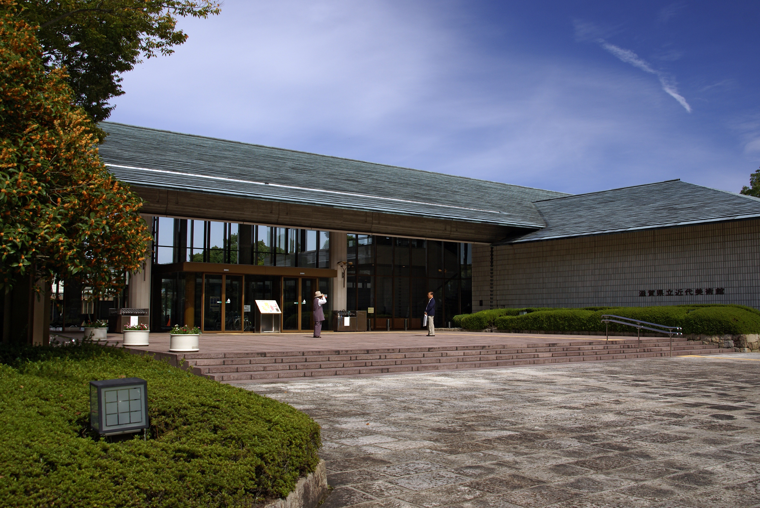 The Museum of Modern Art, Shiga in Otsu, Shiga prefecture, Japan